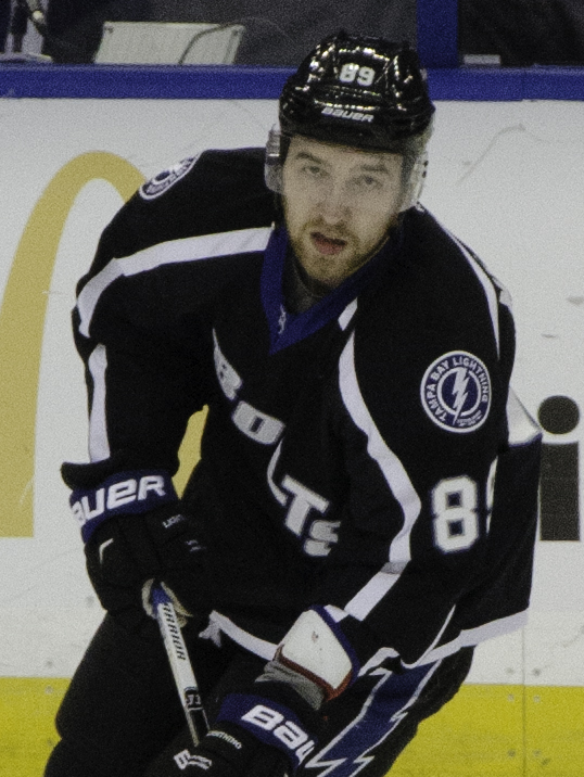 Nikita Nesterov during the pre-game warmup to the Boston Bruins at Tampa Bay Lightning game 11 April 2015.